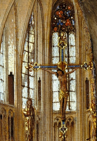 The Madonna in the Church, detail